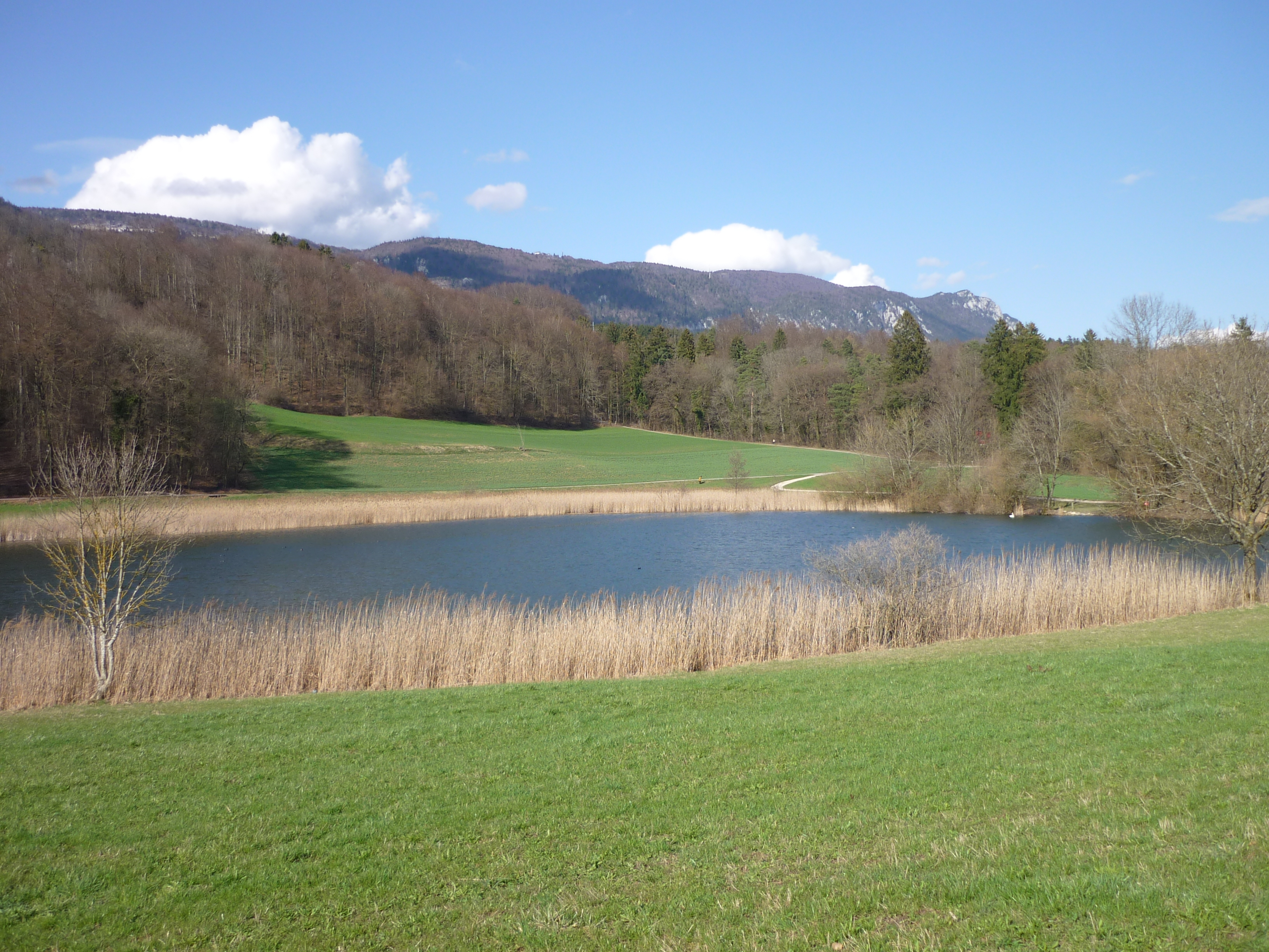 Bellacherweiher pond (created in 1548) in Bellach, Canton of Solothurn, Switzerland, in front of the Weissenstein range, part of the first Jura mountain chain.